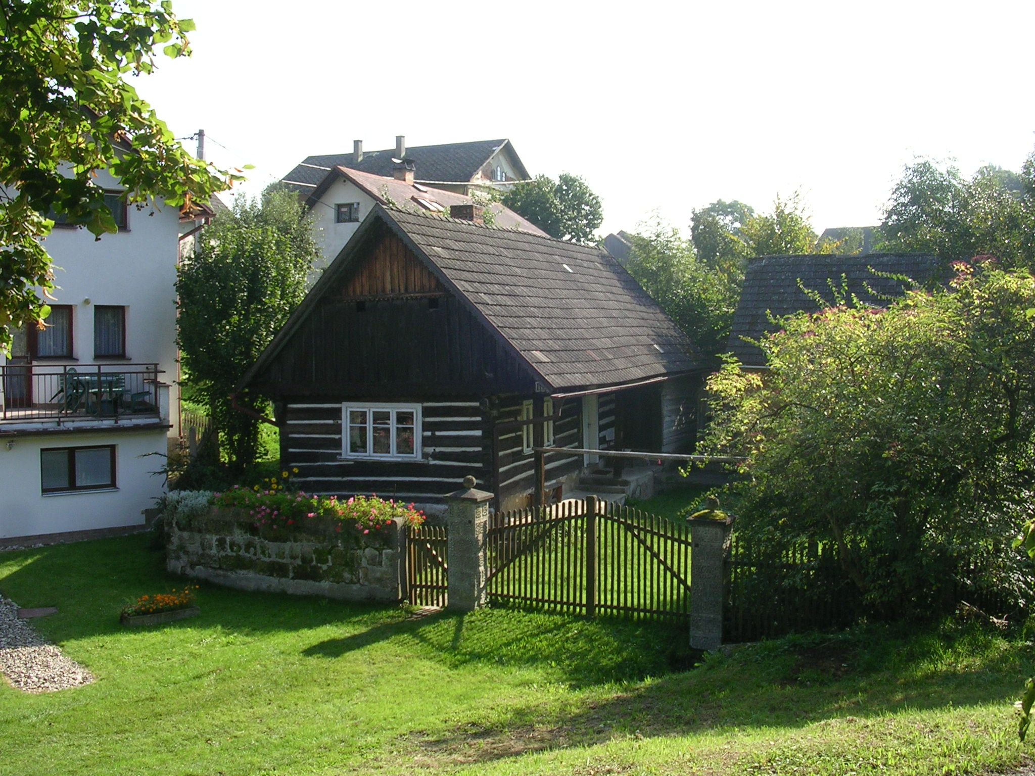 Všeň-Ploukonice, Semily District, Liberec Region, the Czech Republic. The house No 11.